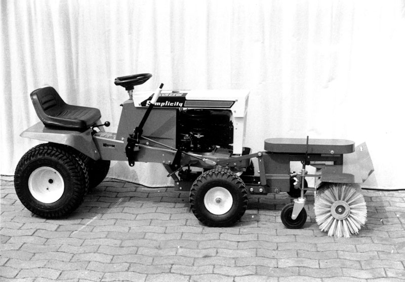 Riding lawn mower with sweeper attachment